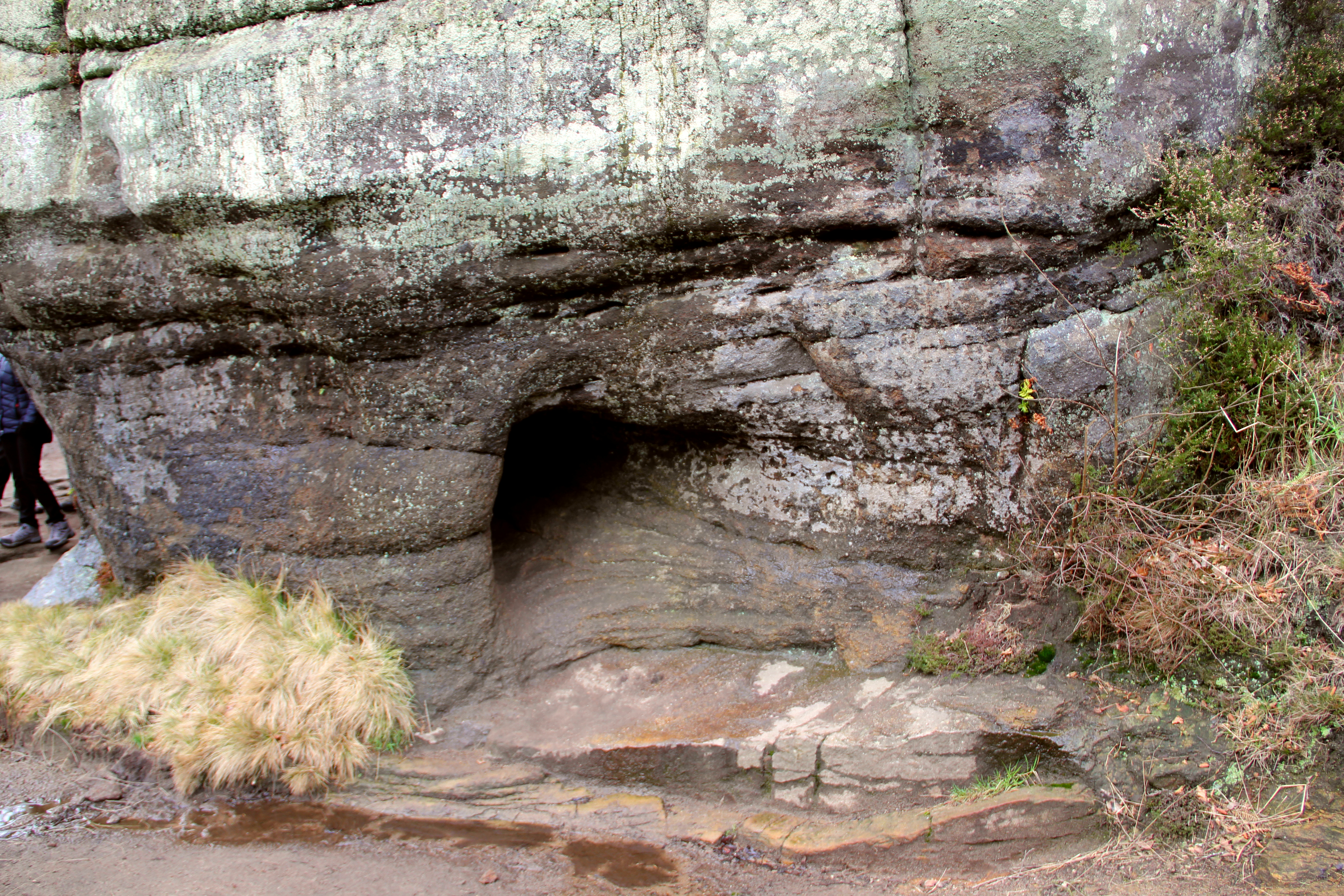 Brimham Rocks, North Yorkshire, England. This is a Site of Special Scientific Interest, designated for its geological and biological significance. Showing one end of the Smartie Tube.